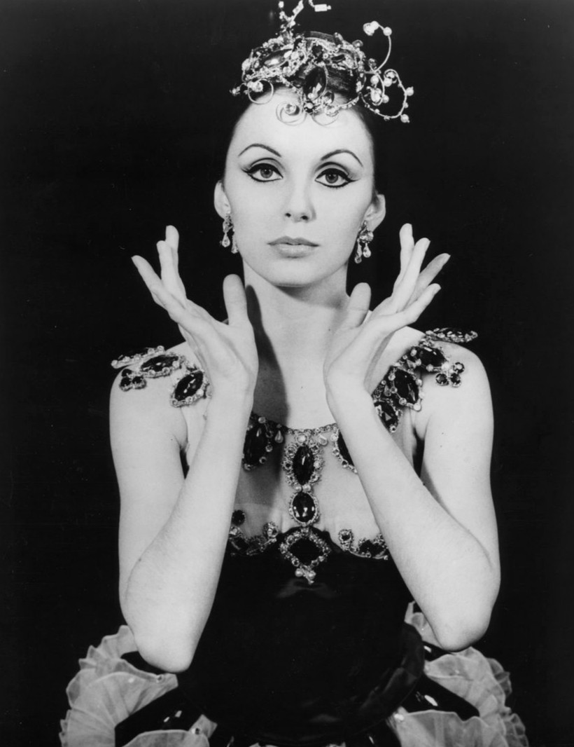 Photo of Patricia McBride from the performance of George Balanchine's ballet, Jewels.